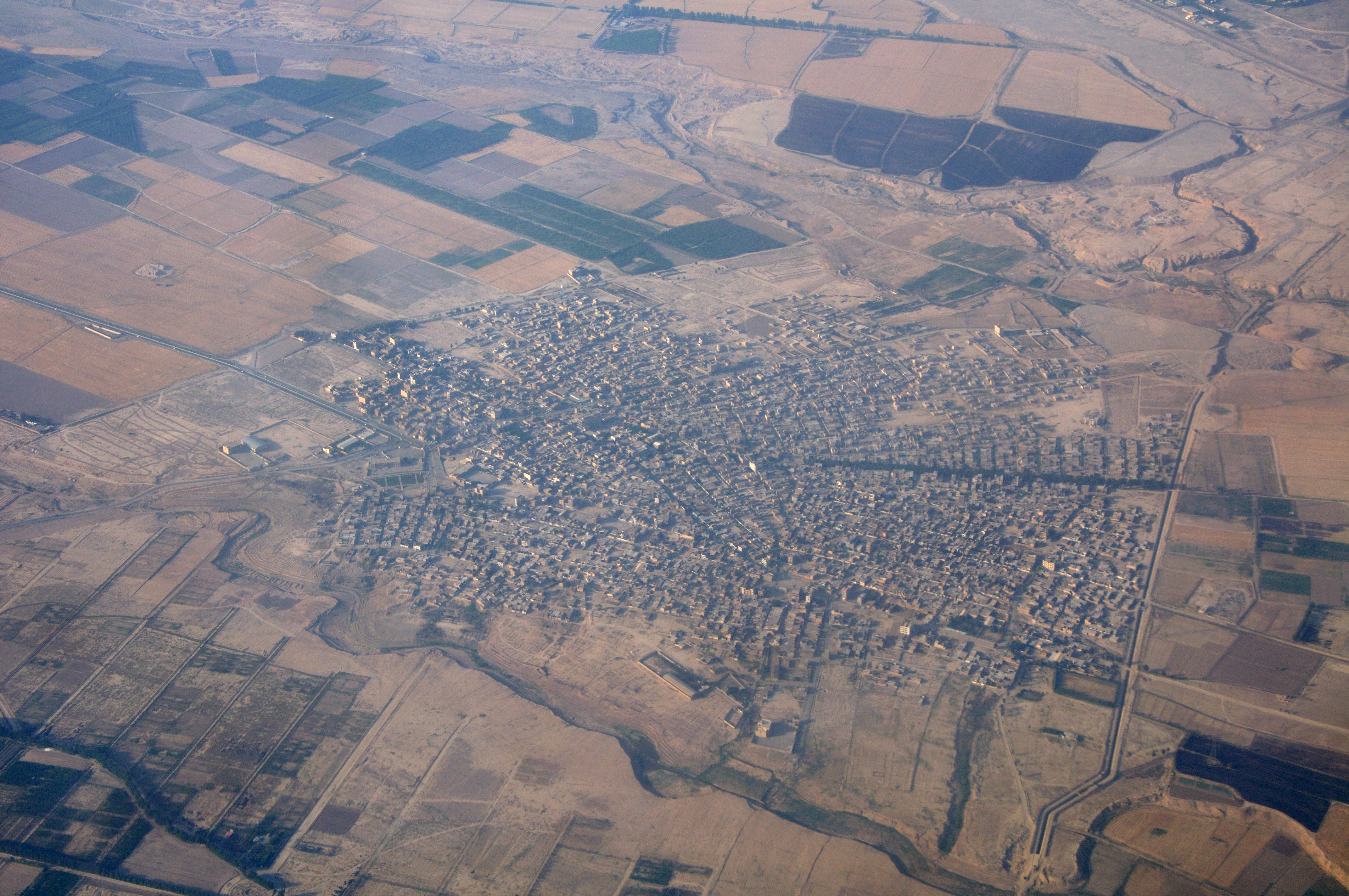 Iran, aerial view of Nasirabad while approaching Tehran's Mehrabad airport.